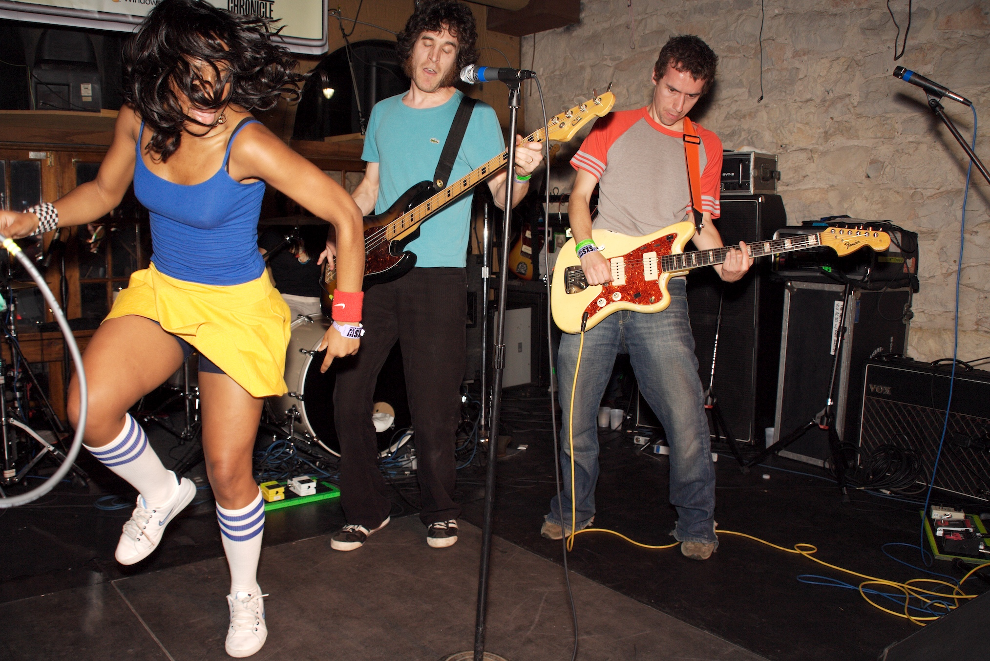 go! team at exodus